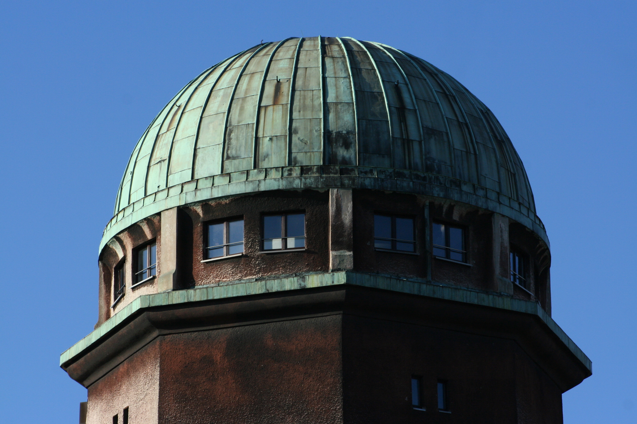 Water tower of Mannheim-Seckenheim detail, Germany